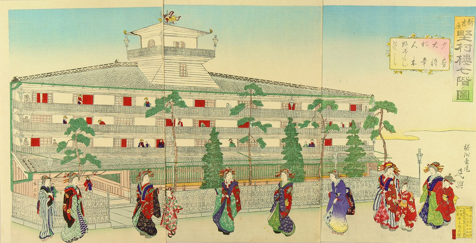 The seven story building of Katamura-rō in the Yoshiwara